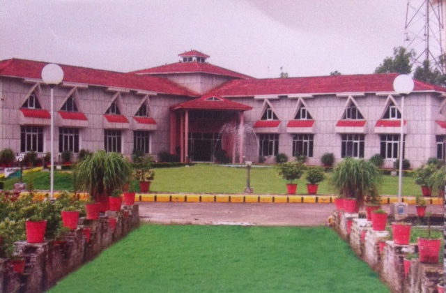 Centre for Aromatic Plants, Selaqui, Dehradun